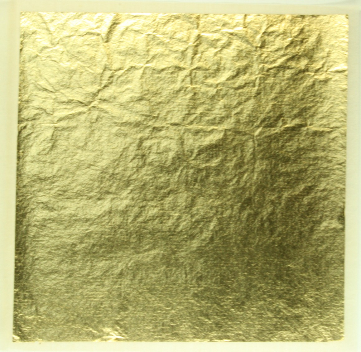 kinpaku